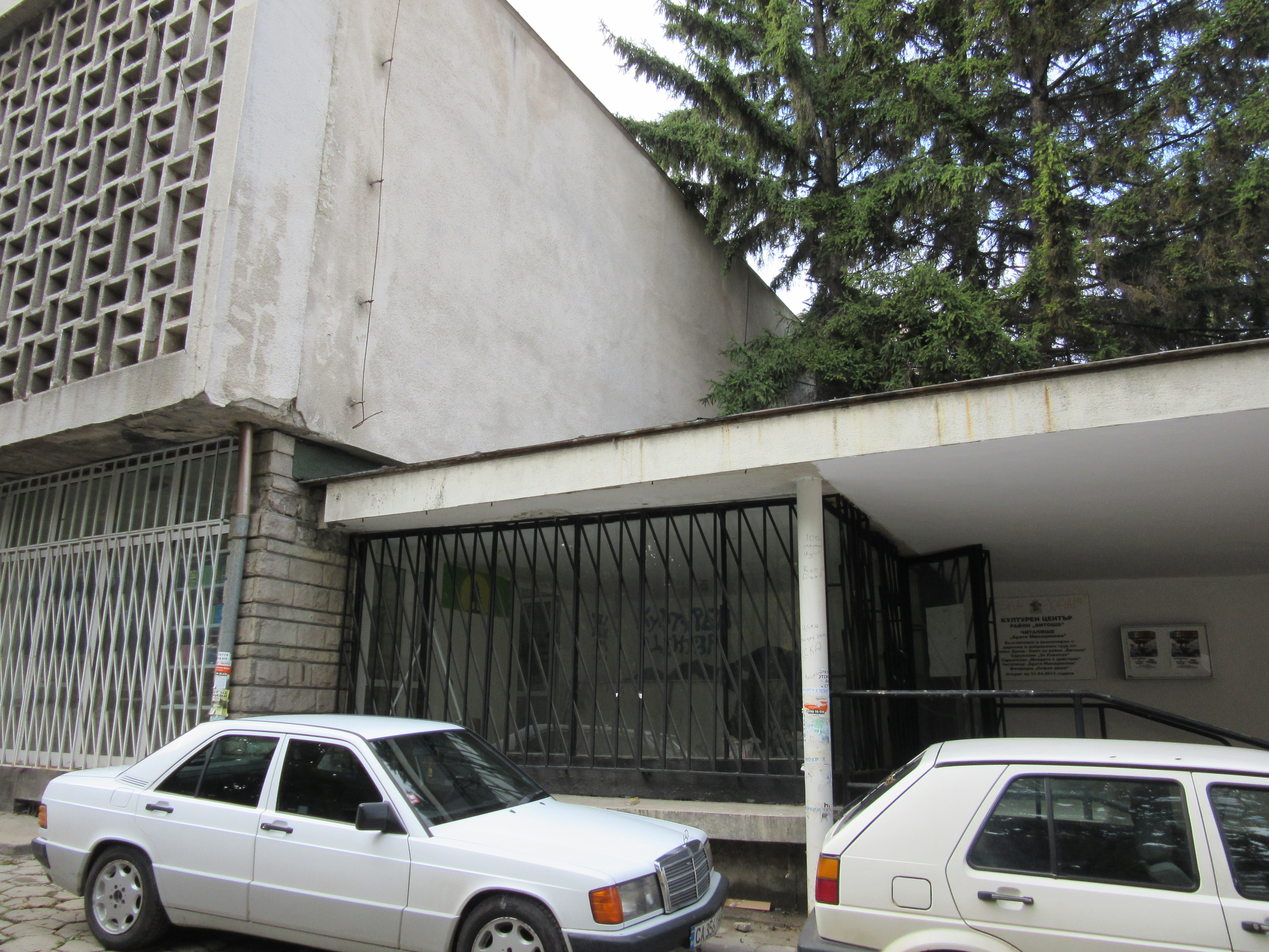 Knyazhevo chitalishte (Culture club) Miladinov brothers